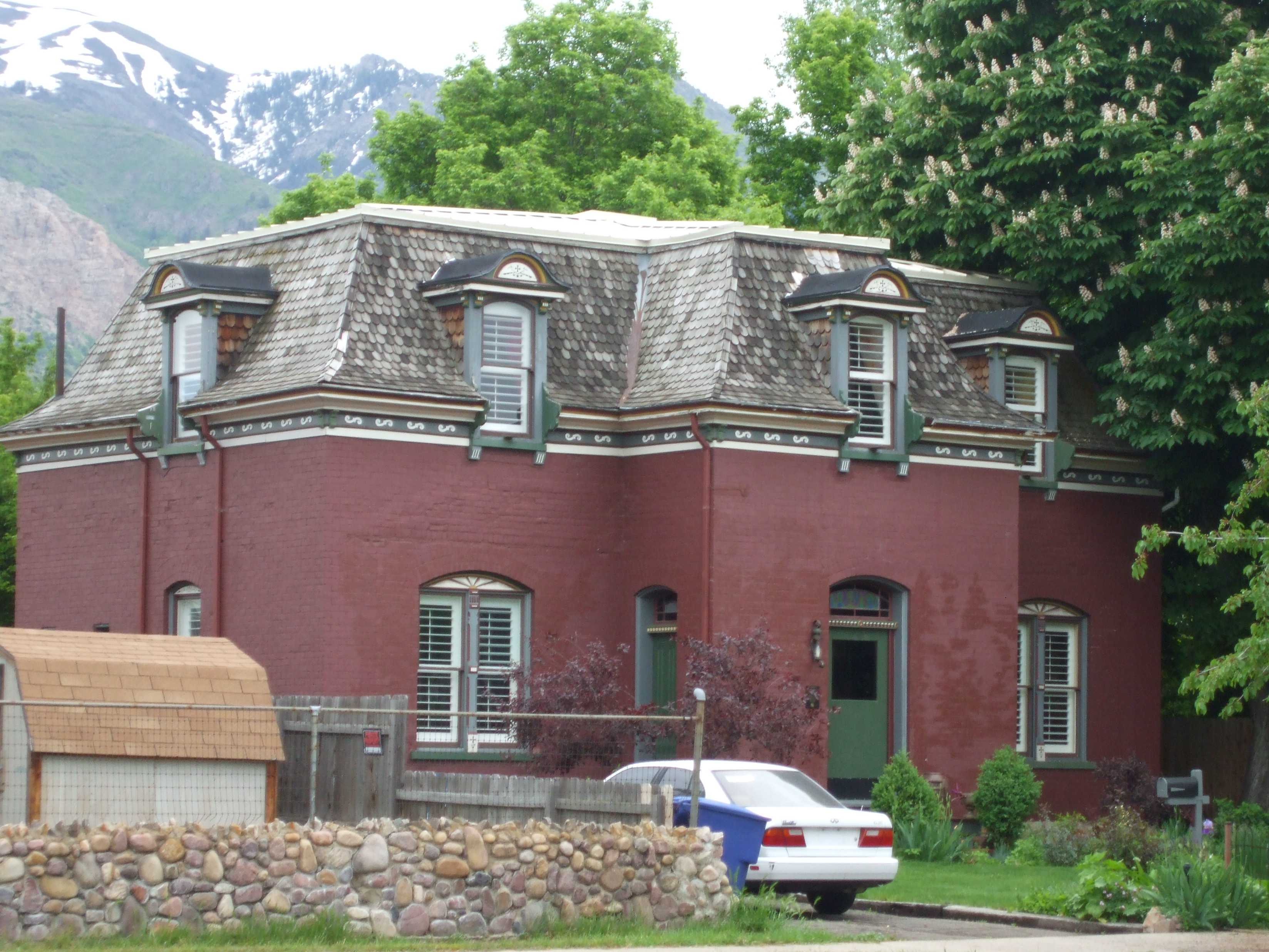 The John L. and Elizabeth Dalton House, a historic home in Ogden, Utah, United States.